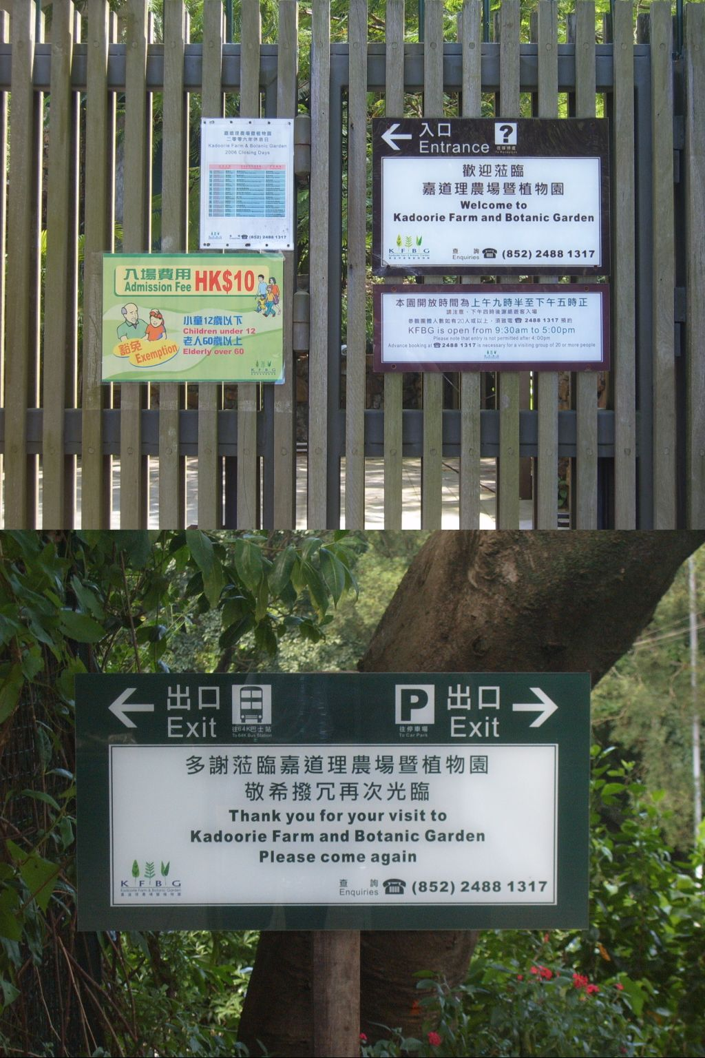 Entrance and exit signs at Kadoorie Farm and Botanic Garden, Lam Tsuen, Tai Po, Hong Kong. Photo taken by myself (User:Sl) on 23 September 2006. 香港大埔林村嘉道理農場暨植物園外的出入指示牌。